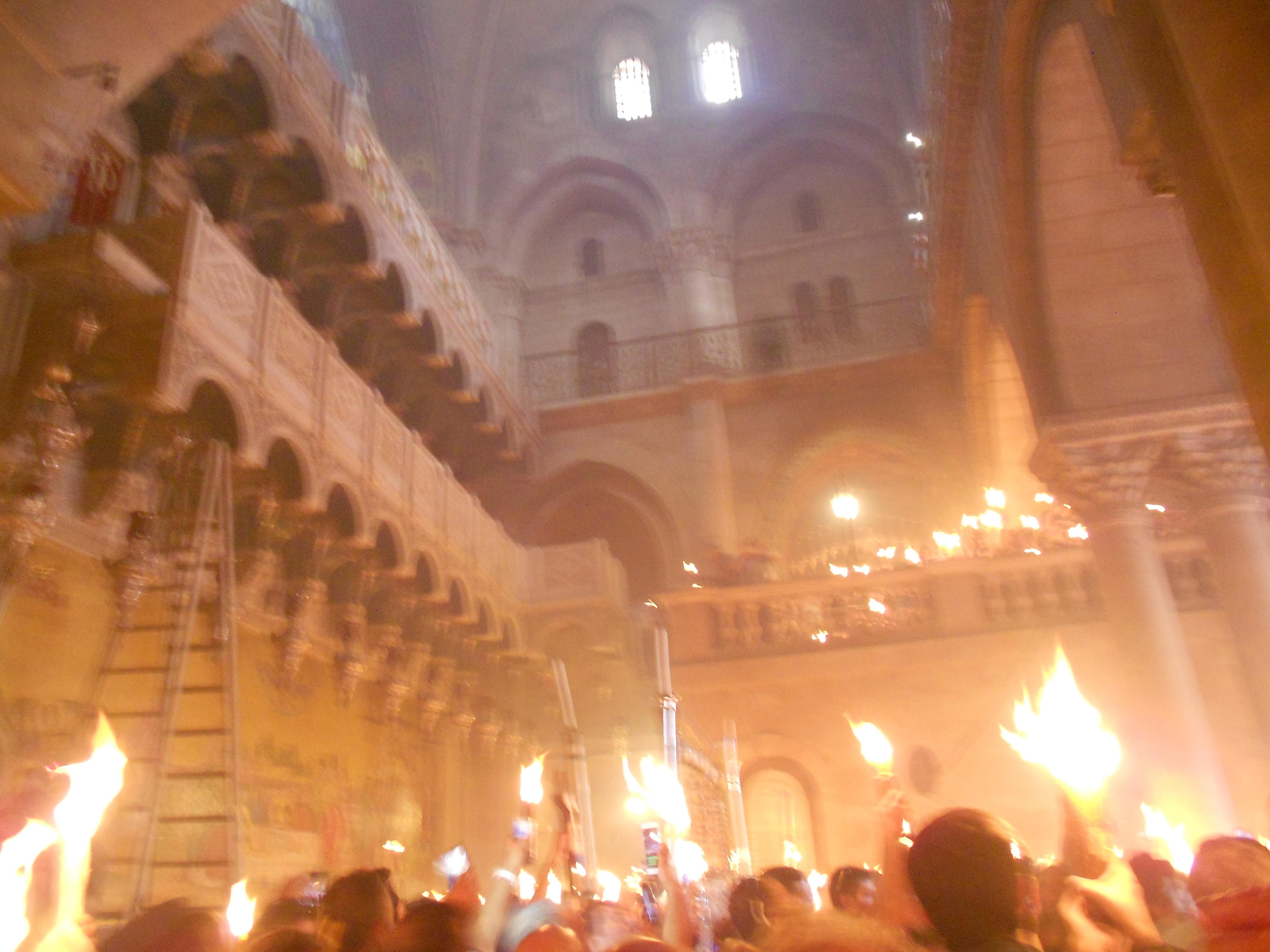 Holy Fire in Jerusalem 2018-04-07 Holy Fire in Jerusalem 2018-04-07